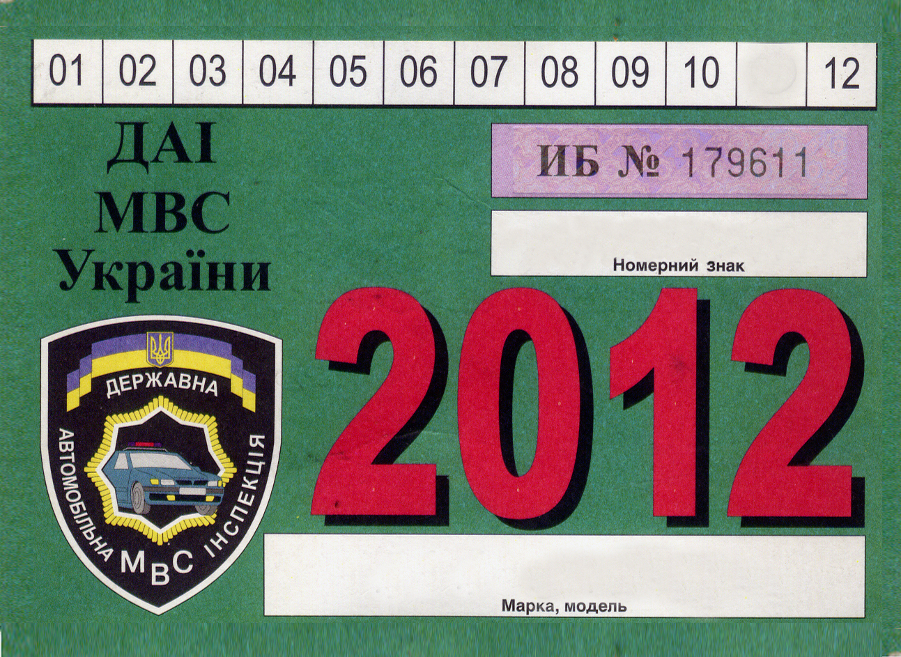 Ukrainian DAI talon 2010, side A. November 2010 - november 2012. Kharkov City.